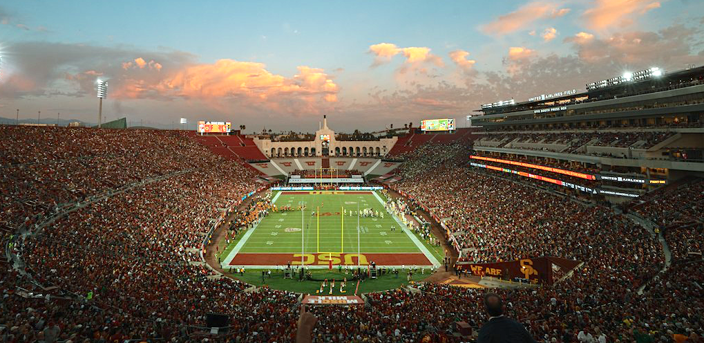 Renovated interior view from Section 215 of the LA Memorial Coliseum November 2, 2019 during the USC verses the University of Oregon football game.